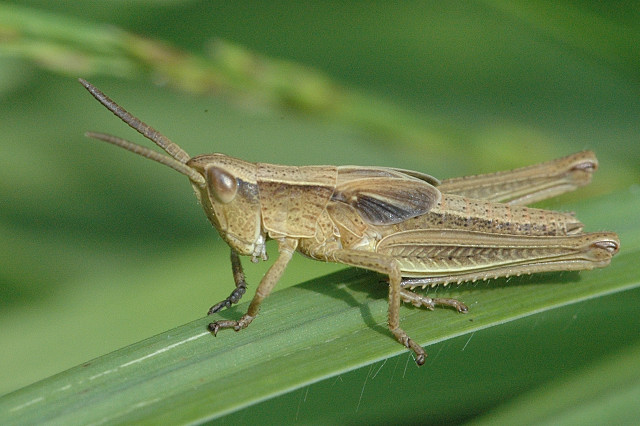 Picture taken in Commanster, Belgian High Ardennes . Species: Chrysochraon dispar female nymph